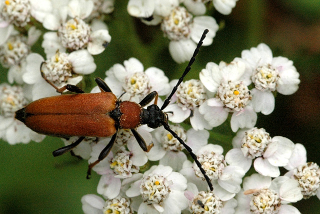 Stictoleptura rubra from Commanster, Belgian High Ardennes .